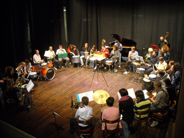 Picture of the Orchestra Invisibile playing live in Tortona (AL, Italy)